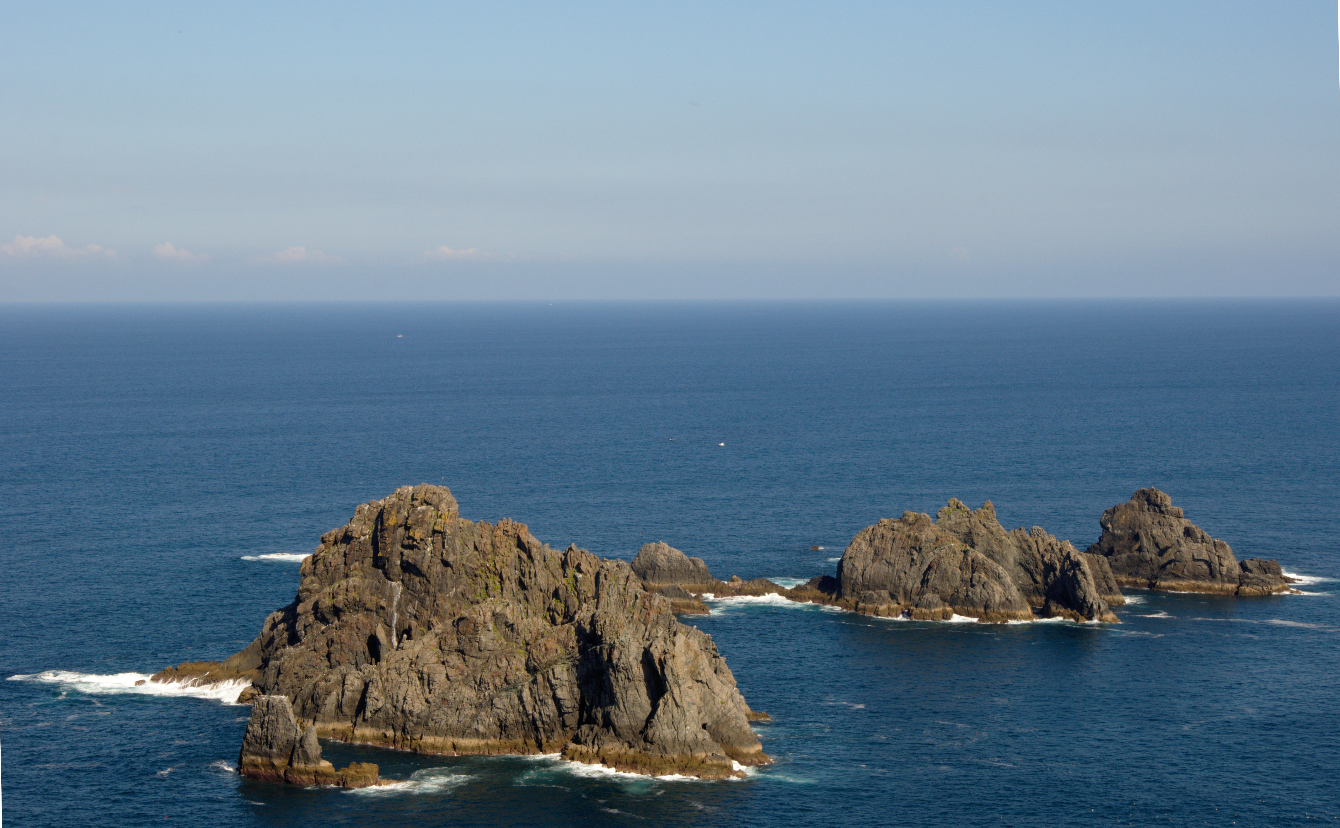 Cape Ortegal, the three Aguillóns"